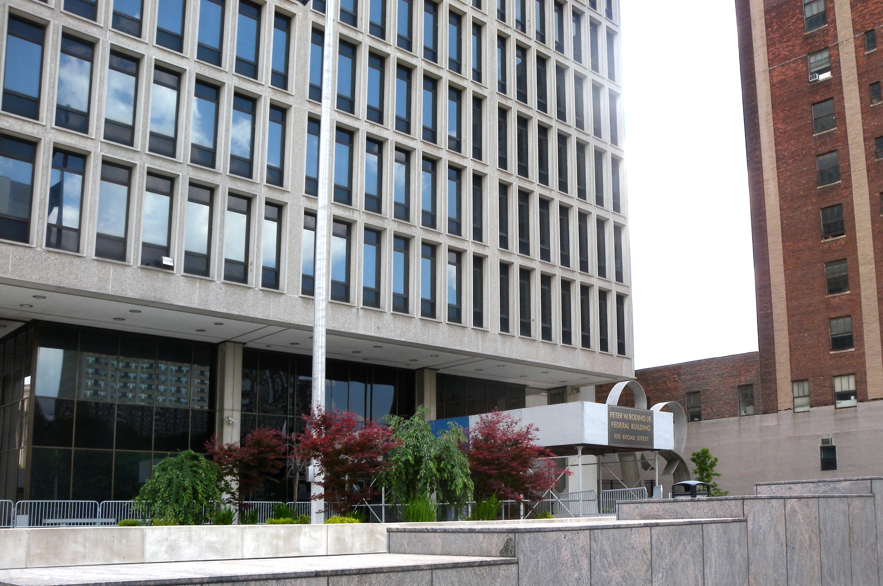 Looking south from Walnut Street at Peter W. Rodino Federal Office Building, 940 Broad Street in Newark government center on a mostly sunny midday.